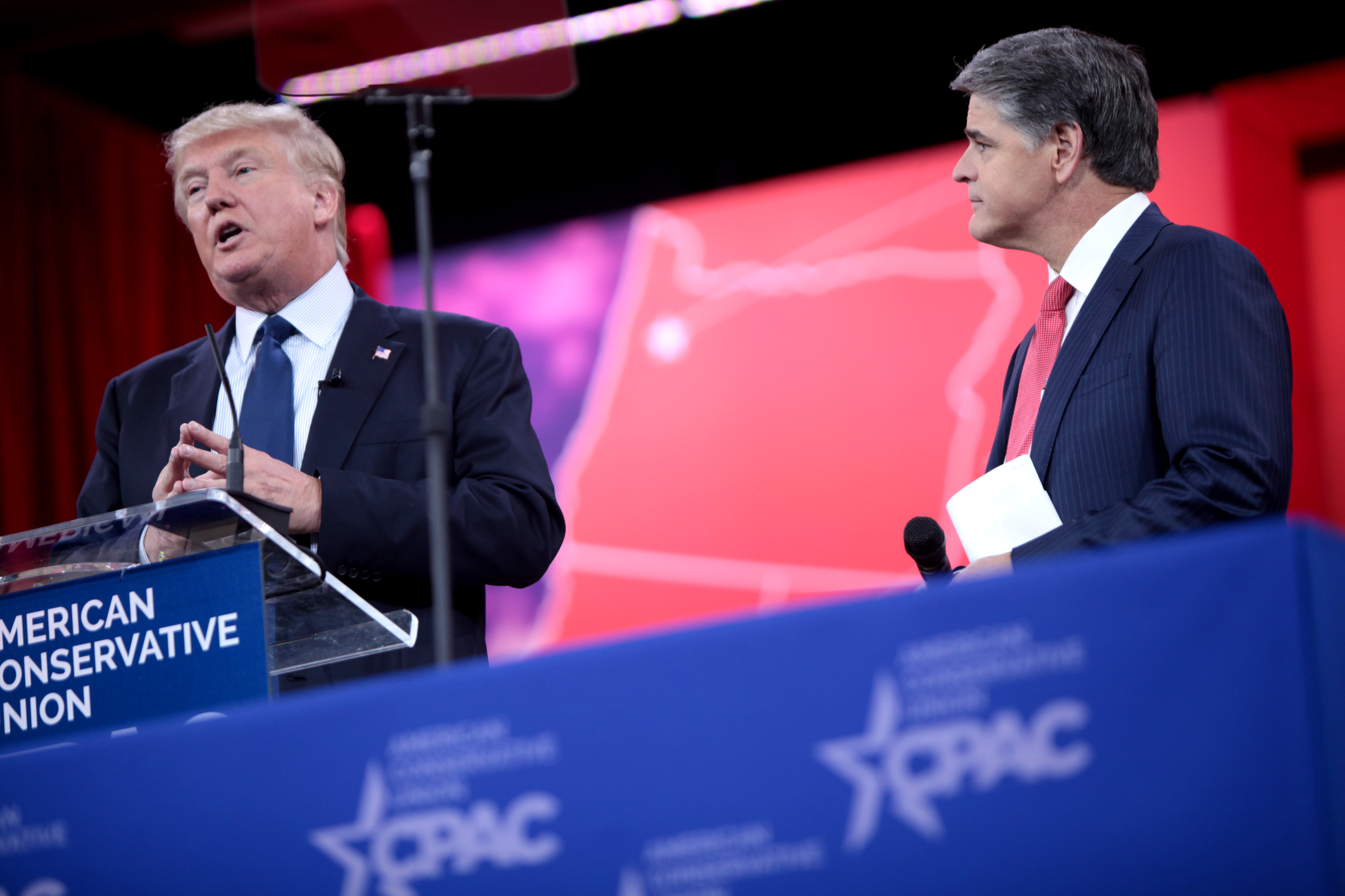 Donald Trump and Sean Hannity speaking at the 2015 Conservative Political Action Conference (CPAC) in National Harbor, Maryland.